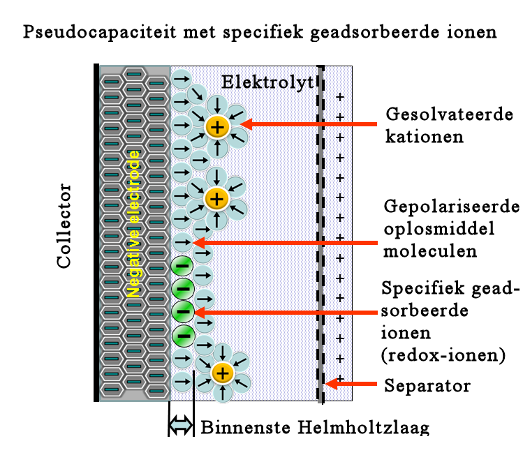 simplified principle of charge storage in pseudocapacitors together with Helmholtz double layer (now with Dutch txt)